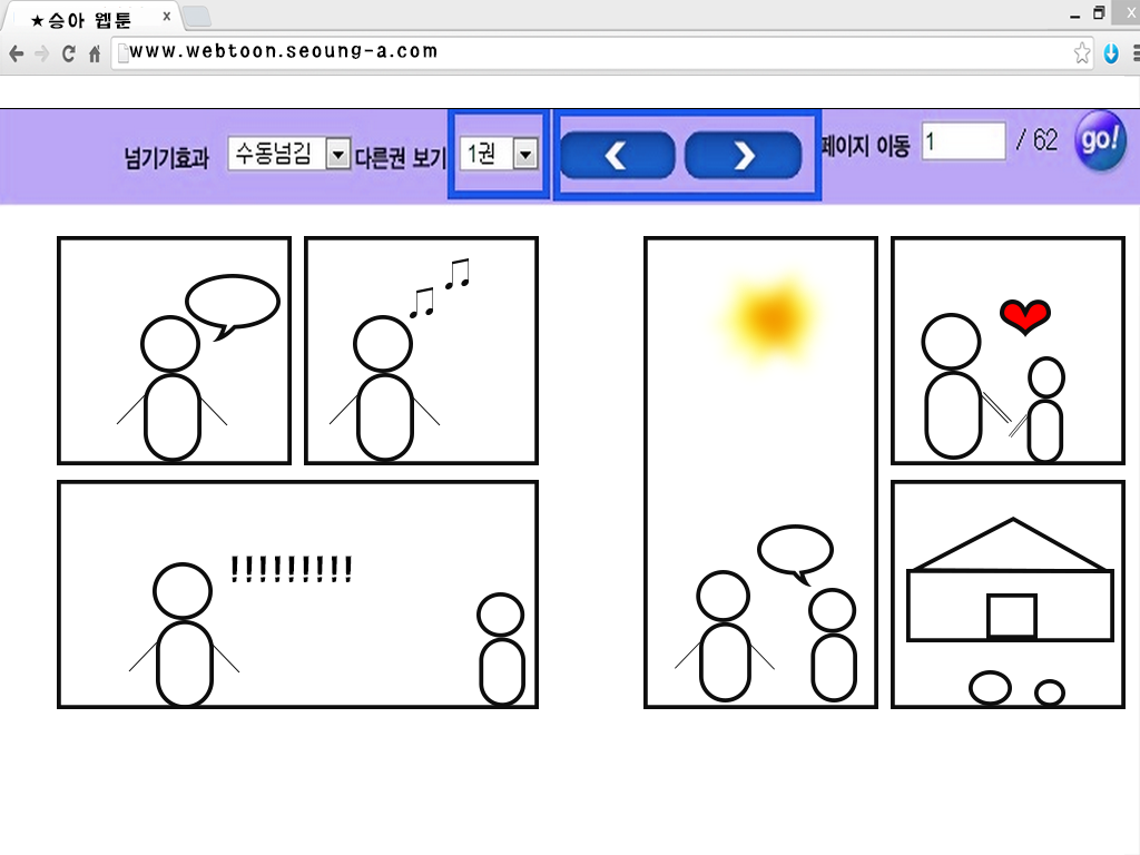 It is an example webtoon of zeroth generation. There are button for turn the page.